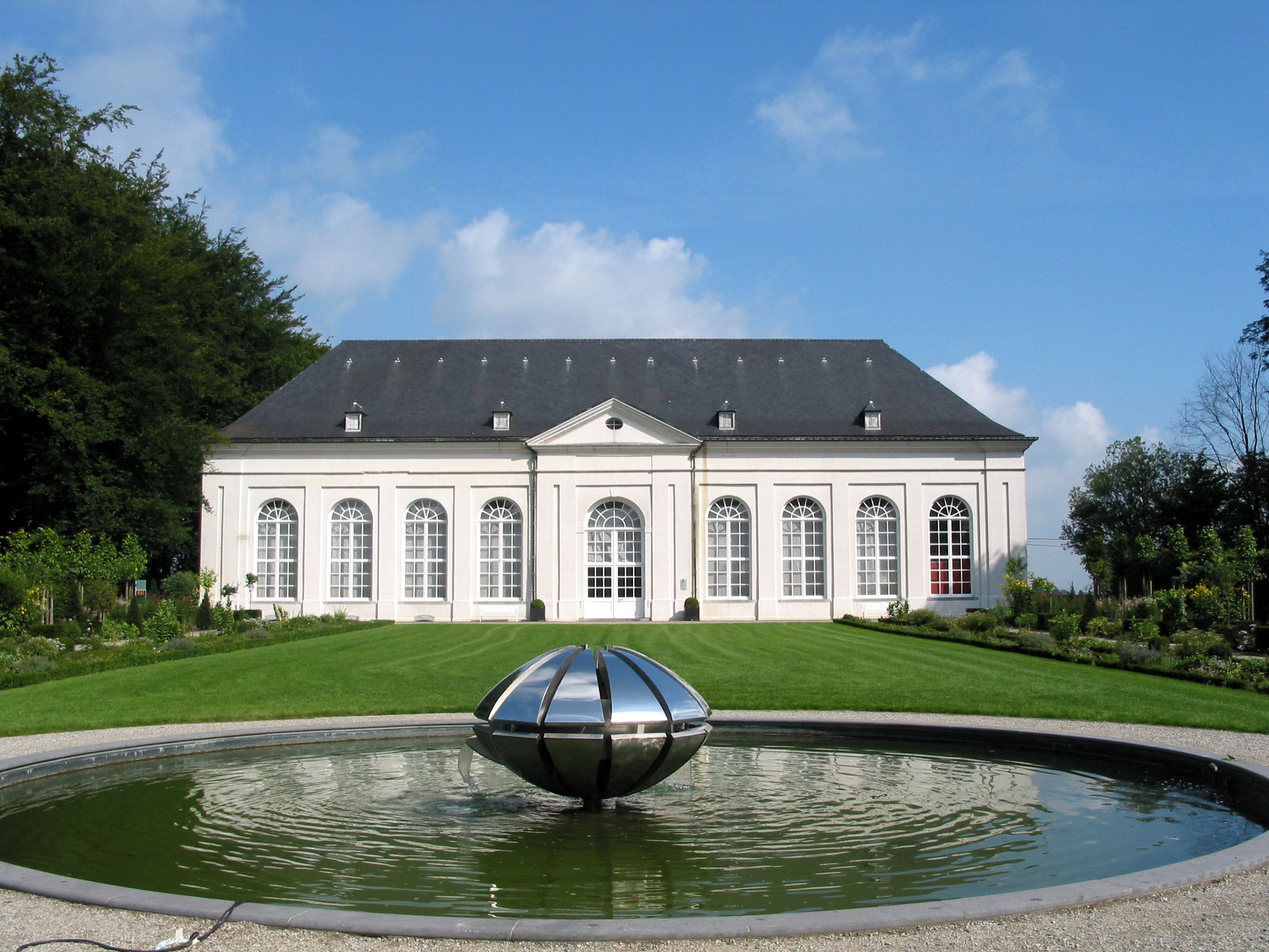 Seneffe (Belgium), the castle garden - the orangery and its basin fountain.